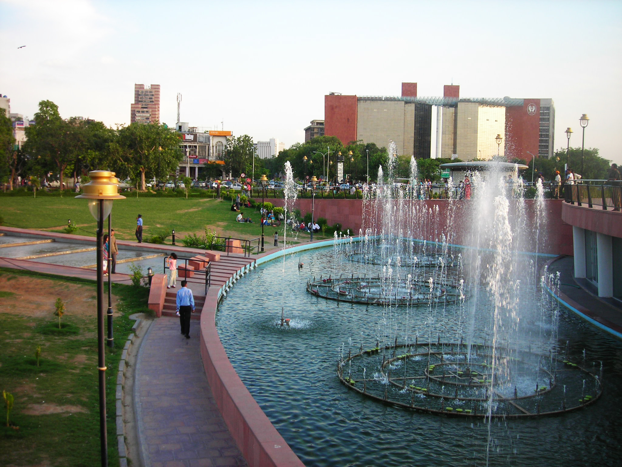 Connaught Place, Delhi's commercial hub